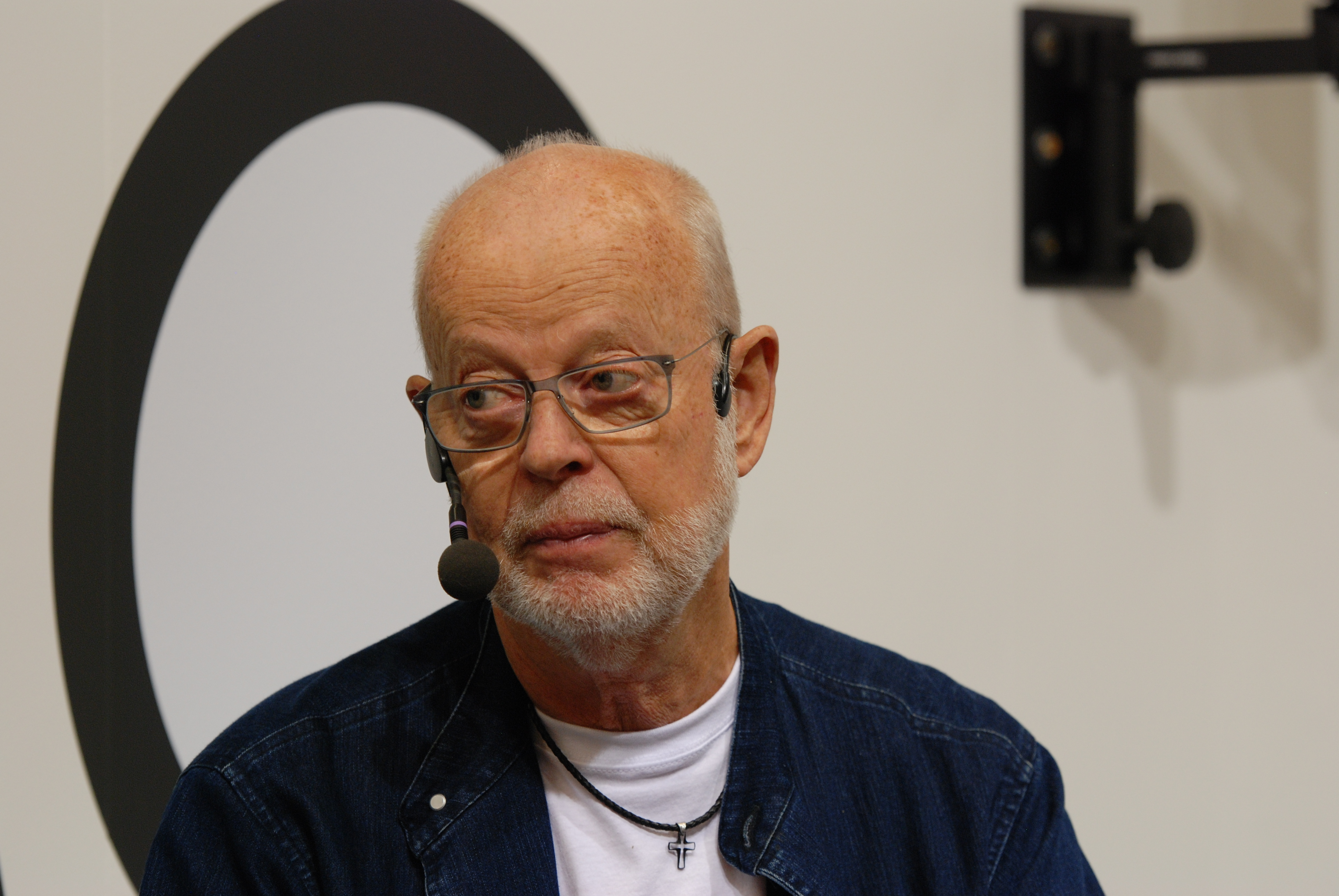 Former Swedish archbishop K.G. Hammar at Göteborg Book Fair 2013.